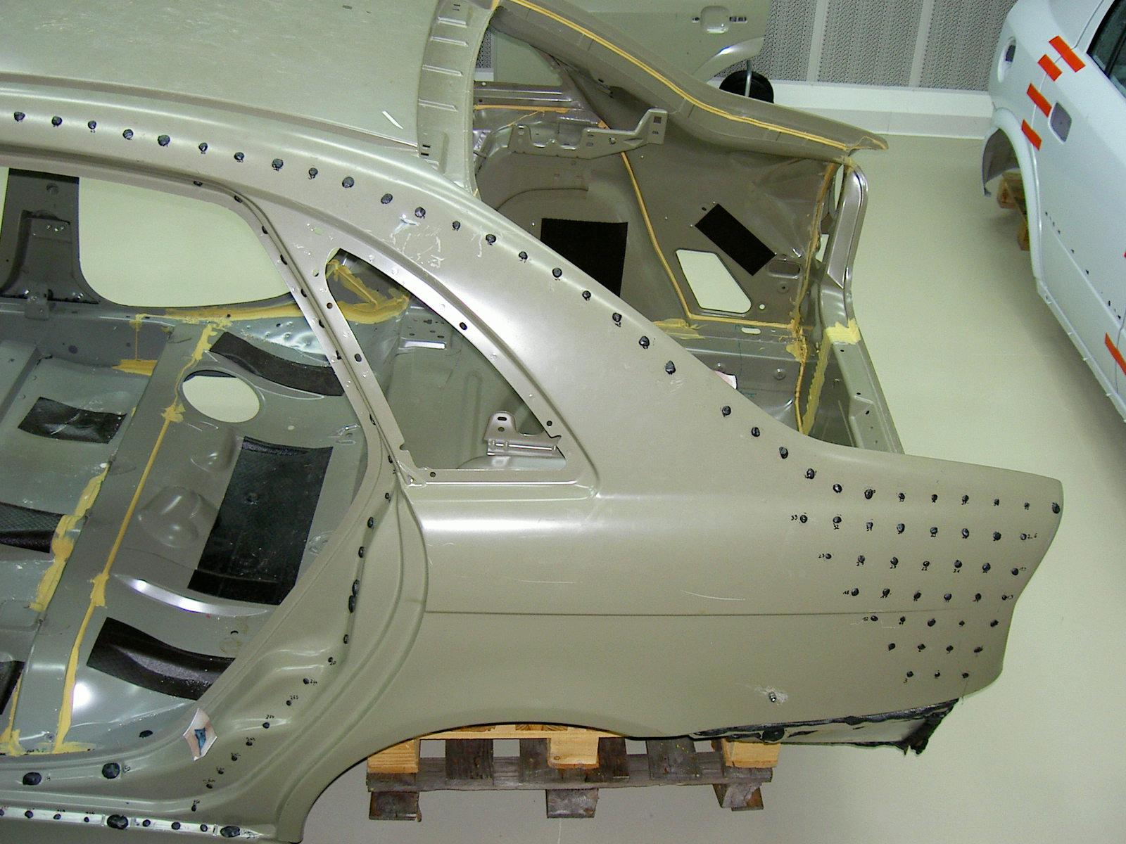 Prototype car body.